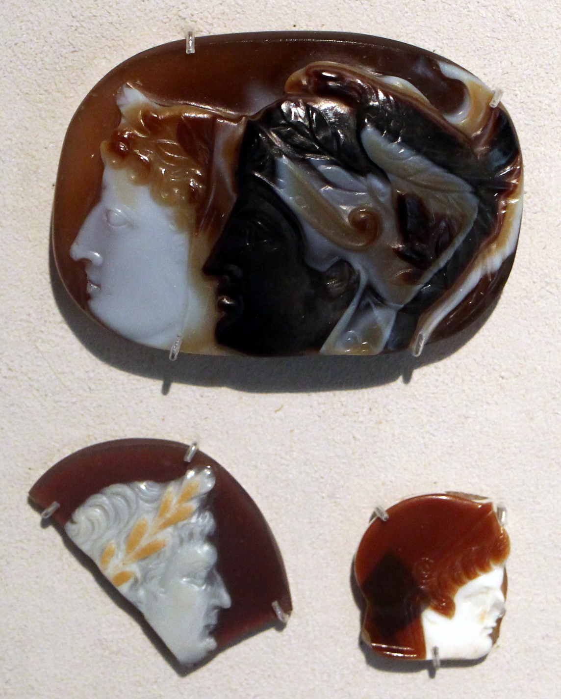 Ancient Roman glyptics in the Antikensammlung Berlin